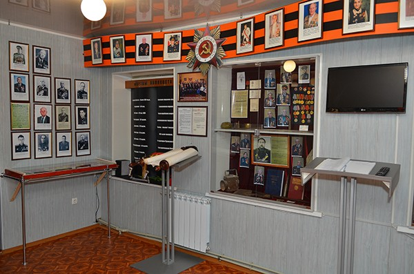 Holocaust